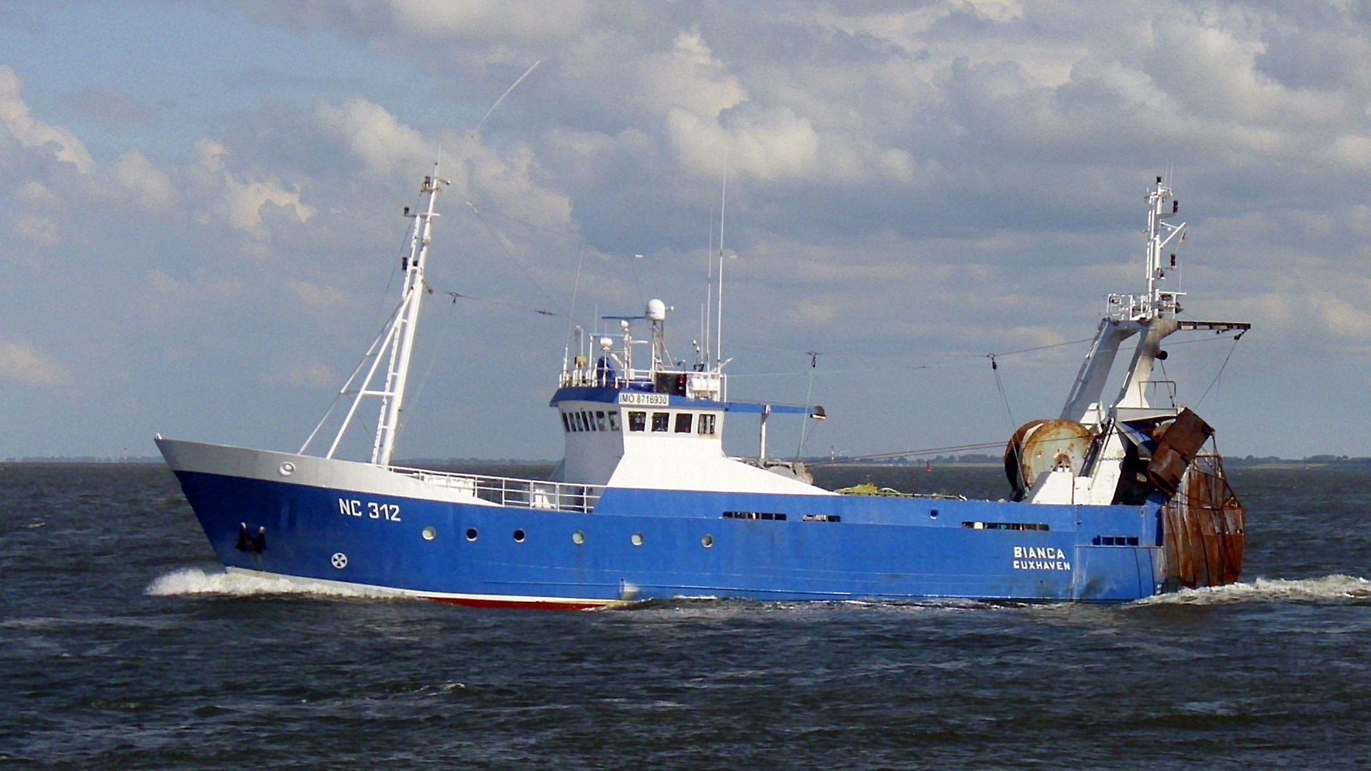 The trawler Bianca has just left the port of Cuxhaven in Germany